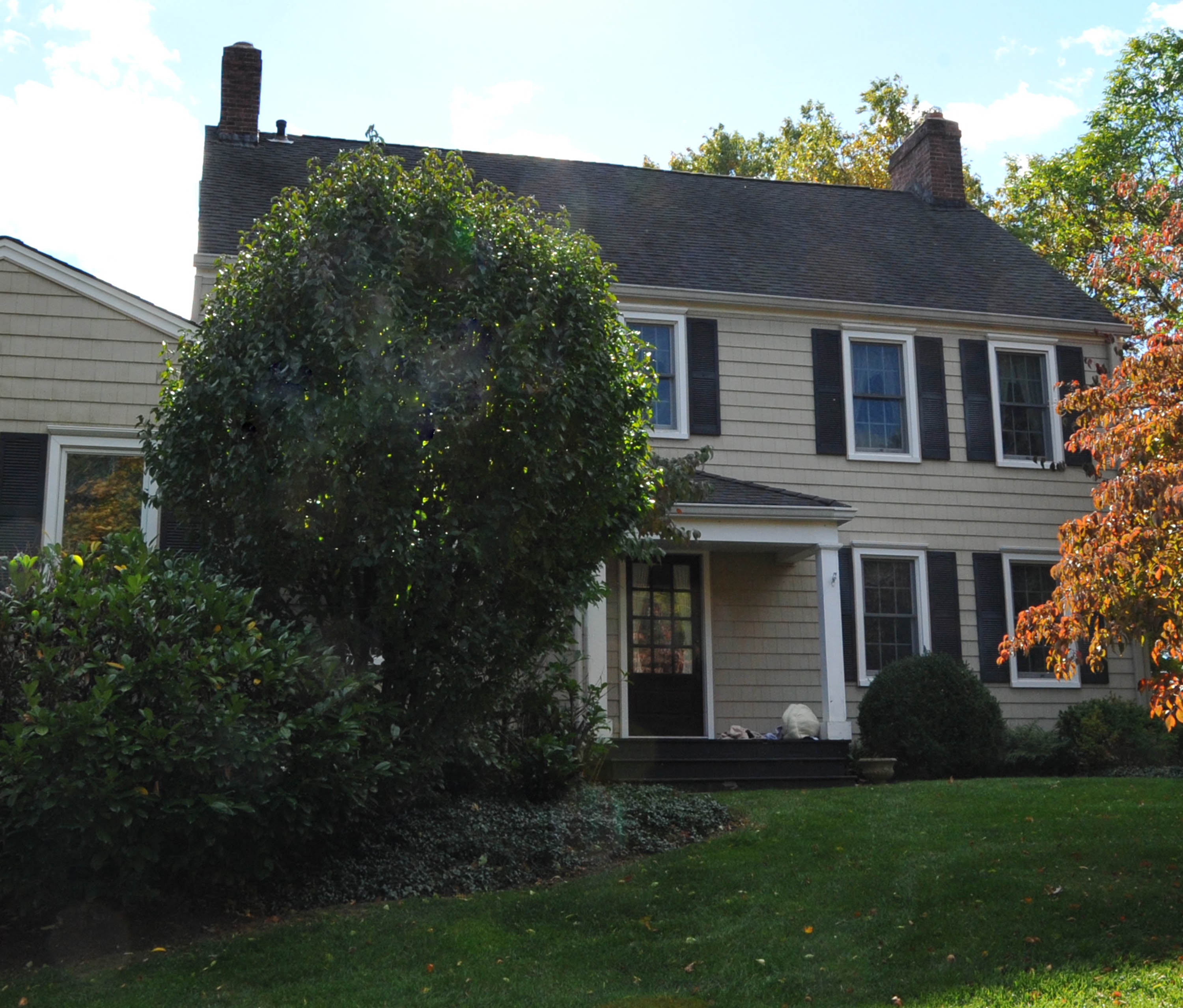 HOUSE WAS BUILT IN THE EARLY 1700’S WHEN THE AREA WAS BEING SETTLED BY SCOTTISH QUAKERS